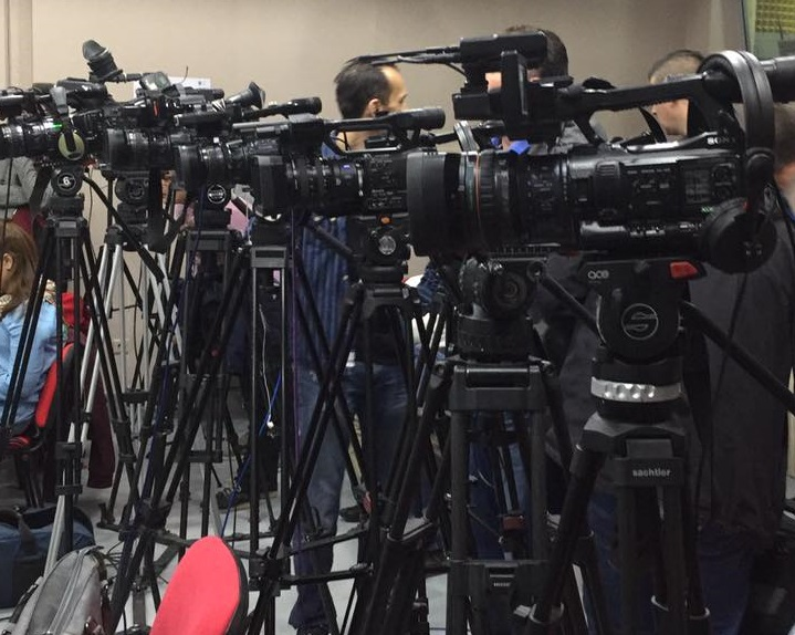 Television cameras at the Press conference about the Declaration on the Common Language, Mediacentar Sarajevo